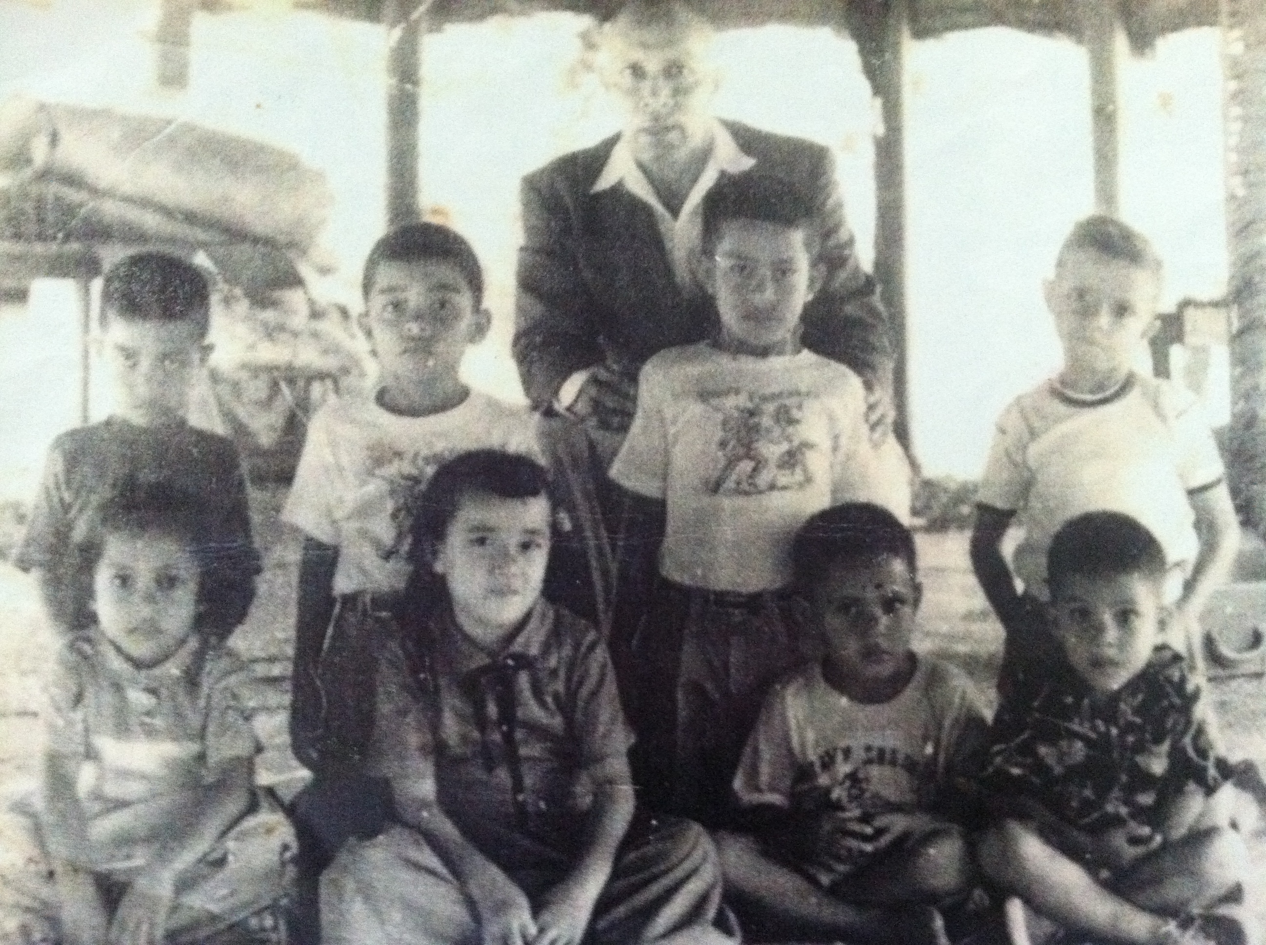 Paramount Chief Palepoi Mauga with his granchildren: Top from left to right: Talalima, Moimoi George, Maoputasi Henry, Tamaalemalo Tasi Mauga Bottom from left to right:Apaula Sulimoni, Laralai, Larry, and Wally